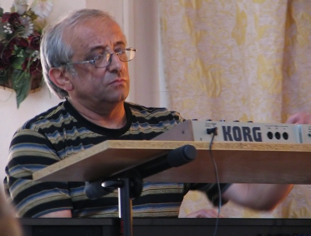 Slava Ganelin, born near Moscow, music composer, pianist, live in Israel